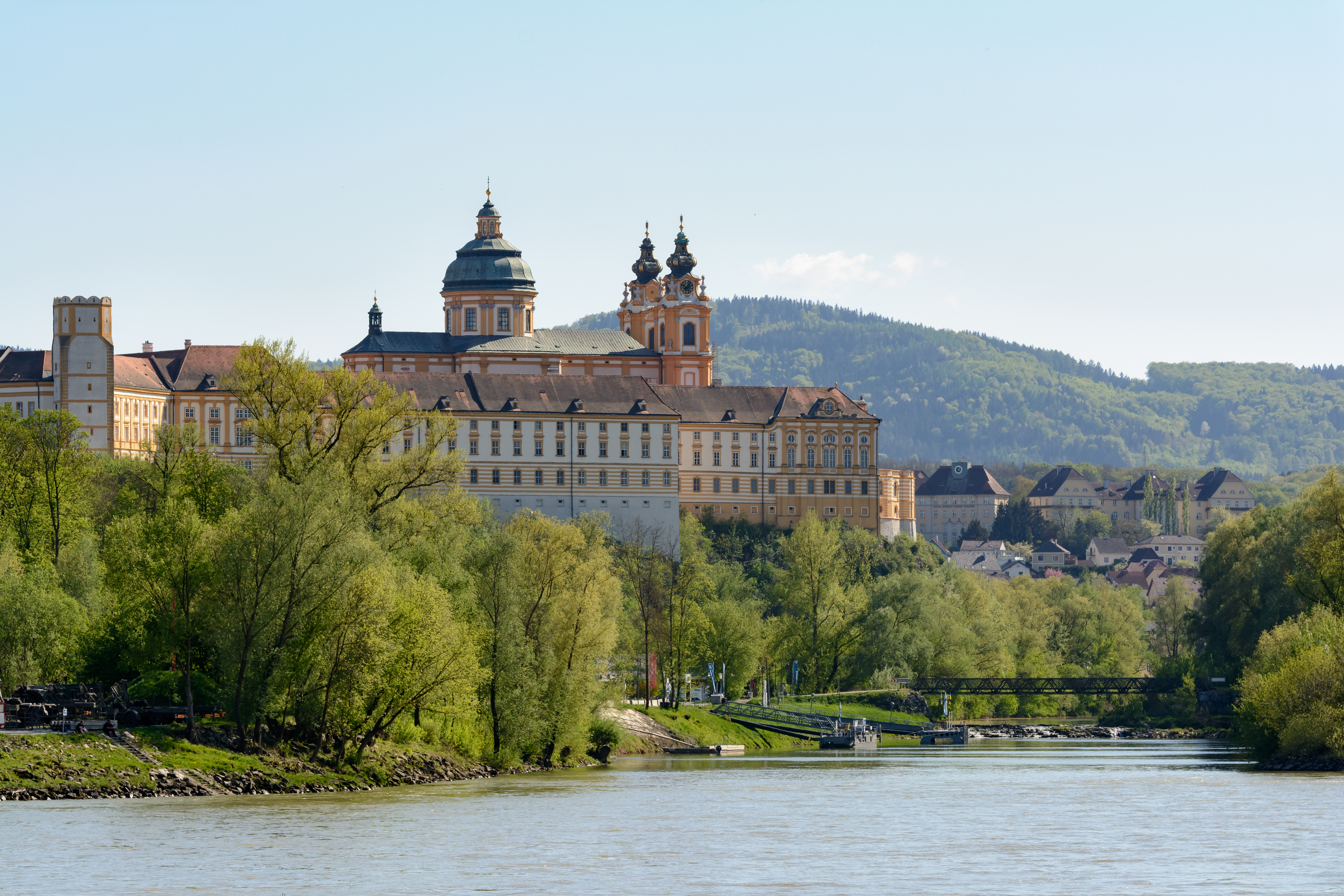 North side of Melk Abbey and entry of Melk river into the Danube. View from Emmersdorf, Lower Austria.